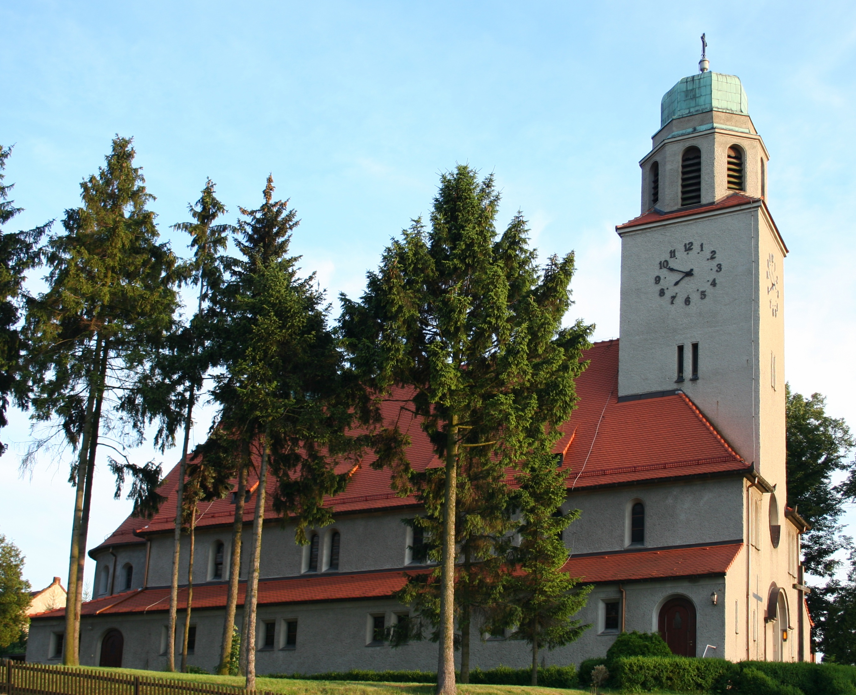 Church of Saint Martin in Paczyna (Poland)